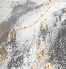 Typhoon Brenda of 1989